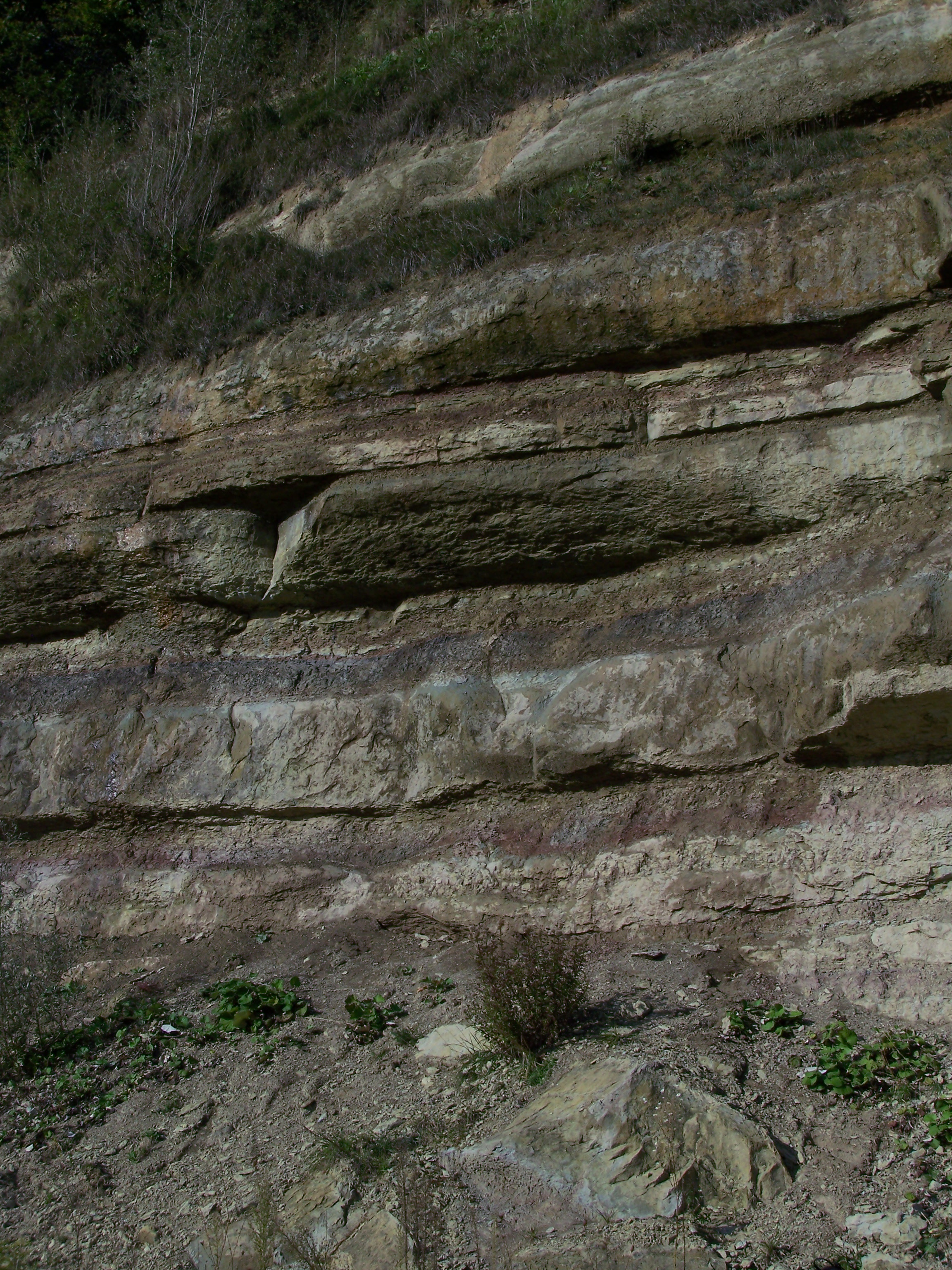 Sedimentary layers at Wallenried, canton Fribourg, Switzerland. Age: Aquitanian (~22 Ma). Alternation of grey fluviatile sandstone, deposited by meandering rivers and red silty marls, belonging to the Untere Süsswassermolasse (Lower Freshwater Molasse) formation.